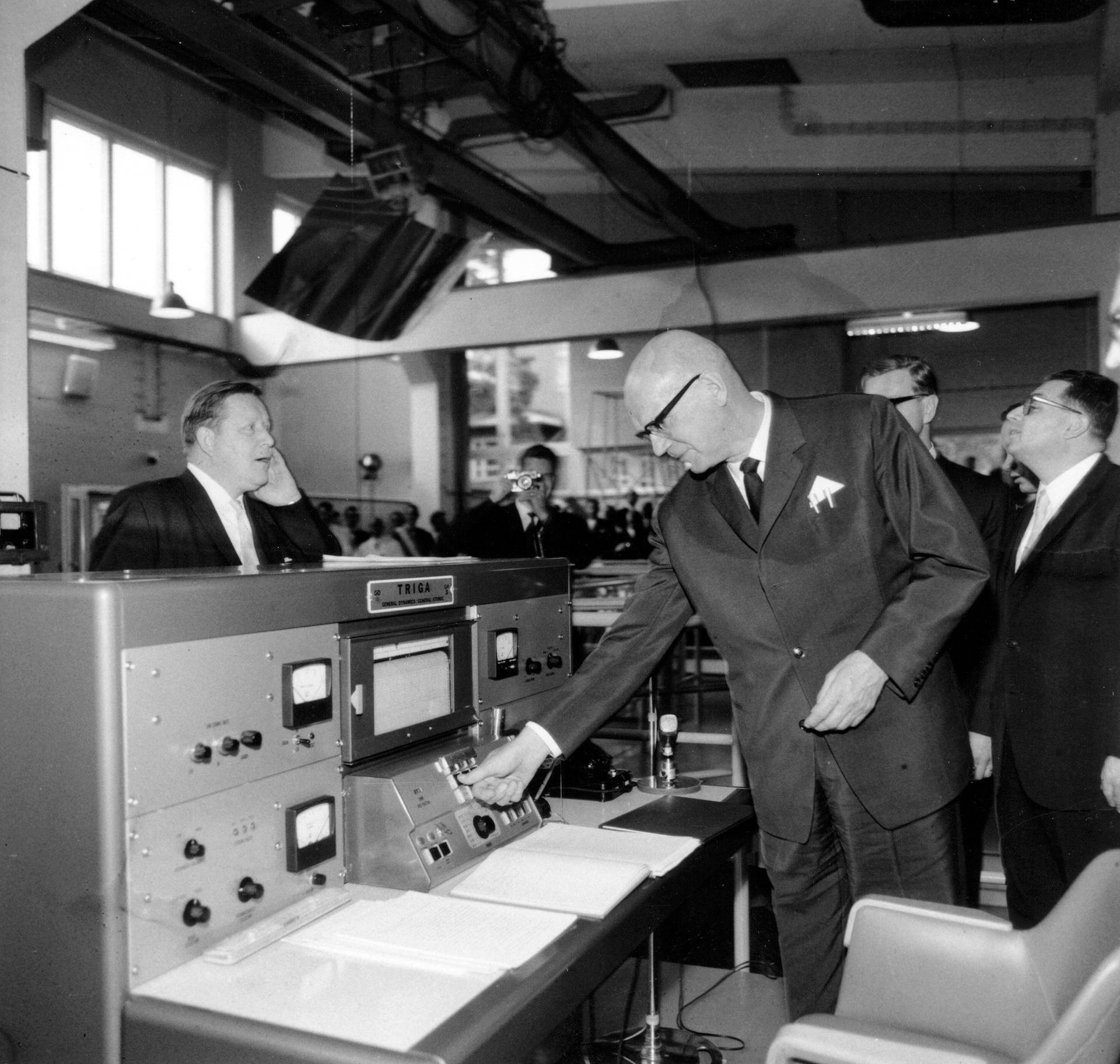 Photograph of President Urho Kekkonen starting the Triga Mark II nuclear research reactor at Otaniemi, Espoo, on 31 October, 1962, at 13:44 local time. The reactor will be demolished in 2022.